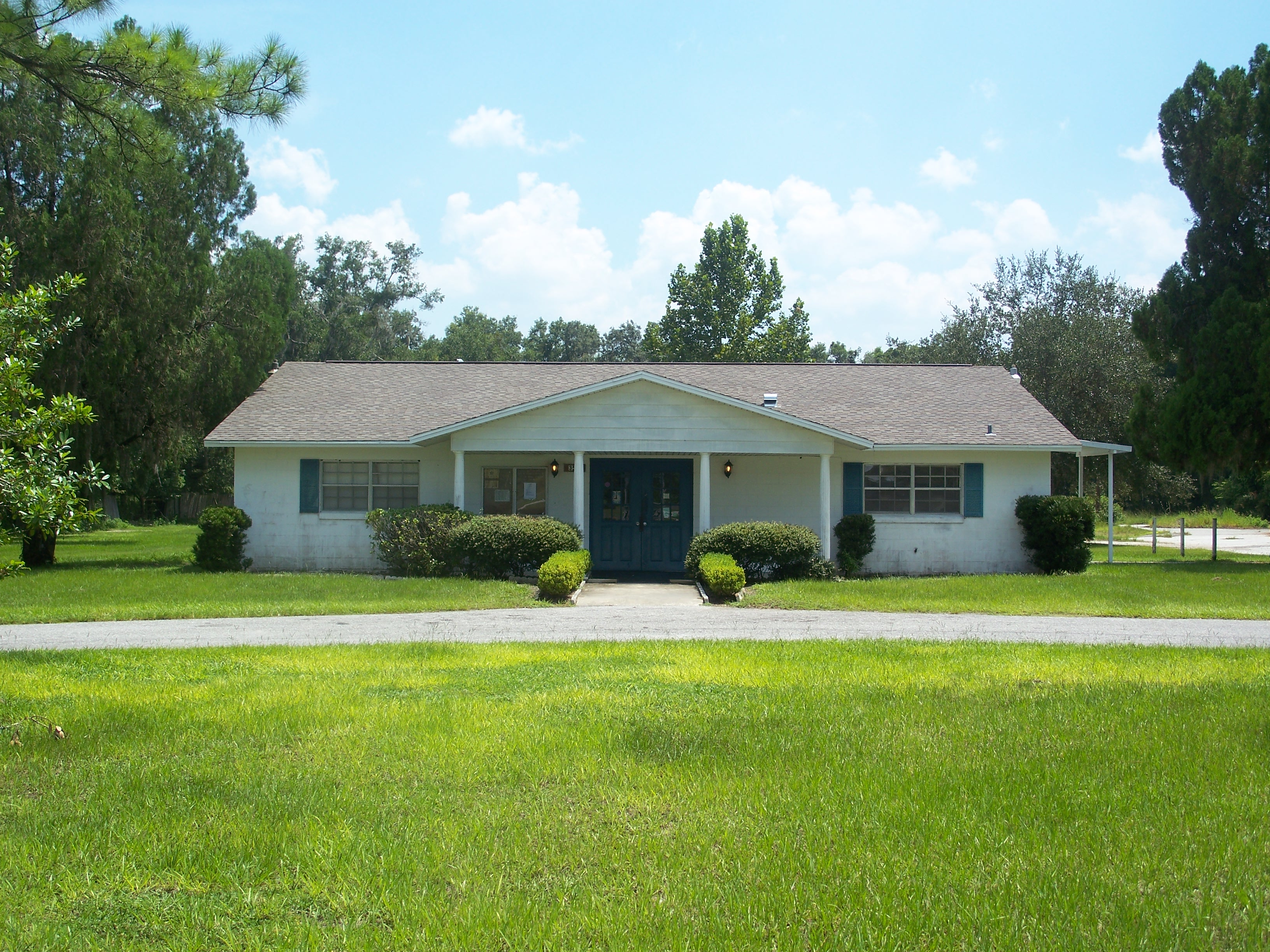 Coleman, Florida: City Hall, on US 301.